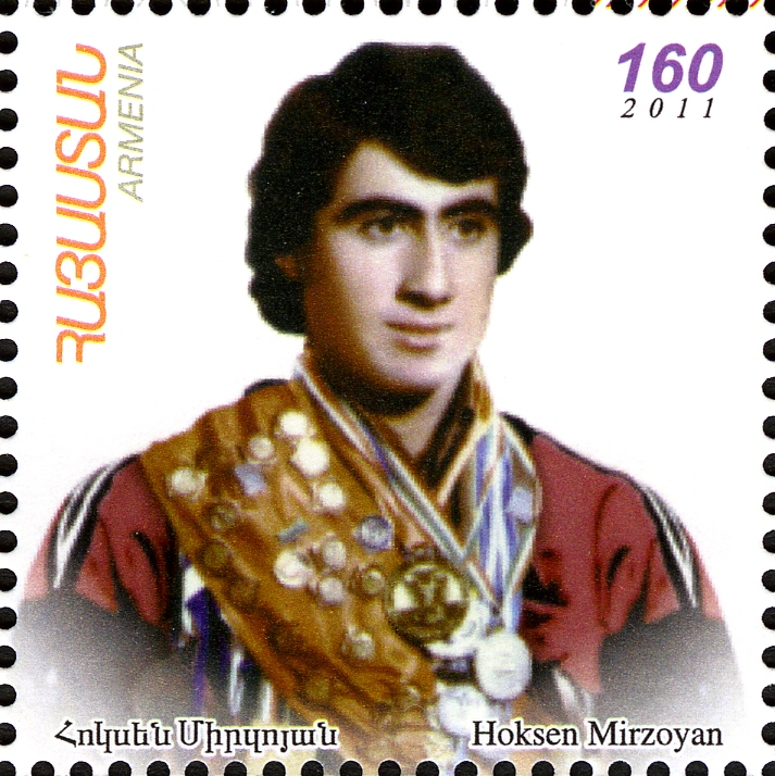 Sport - Olympic Champions - Oksen Mirzoyan